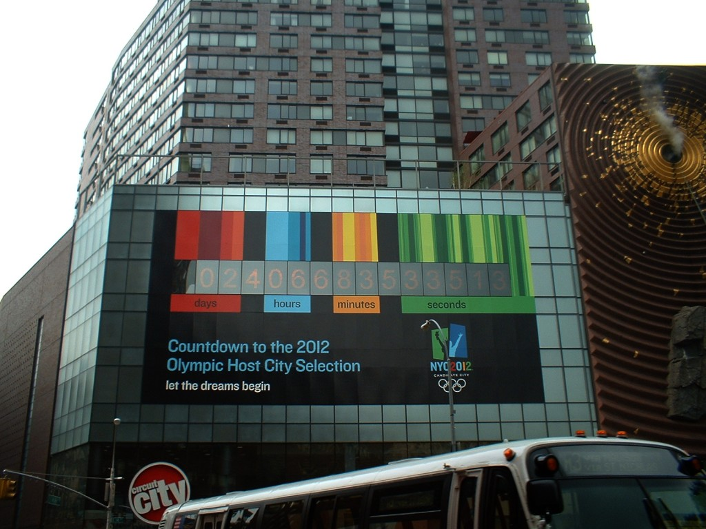 Taken by me on Friday, July 15th, 2005. The countdown clock has reverted back to its old state -- part of the Metronome monument that overlooks Union Square.